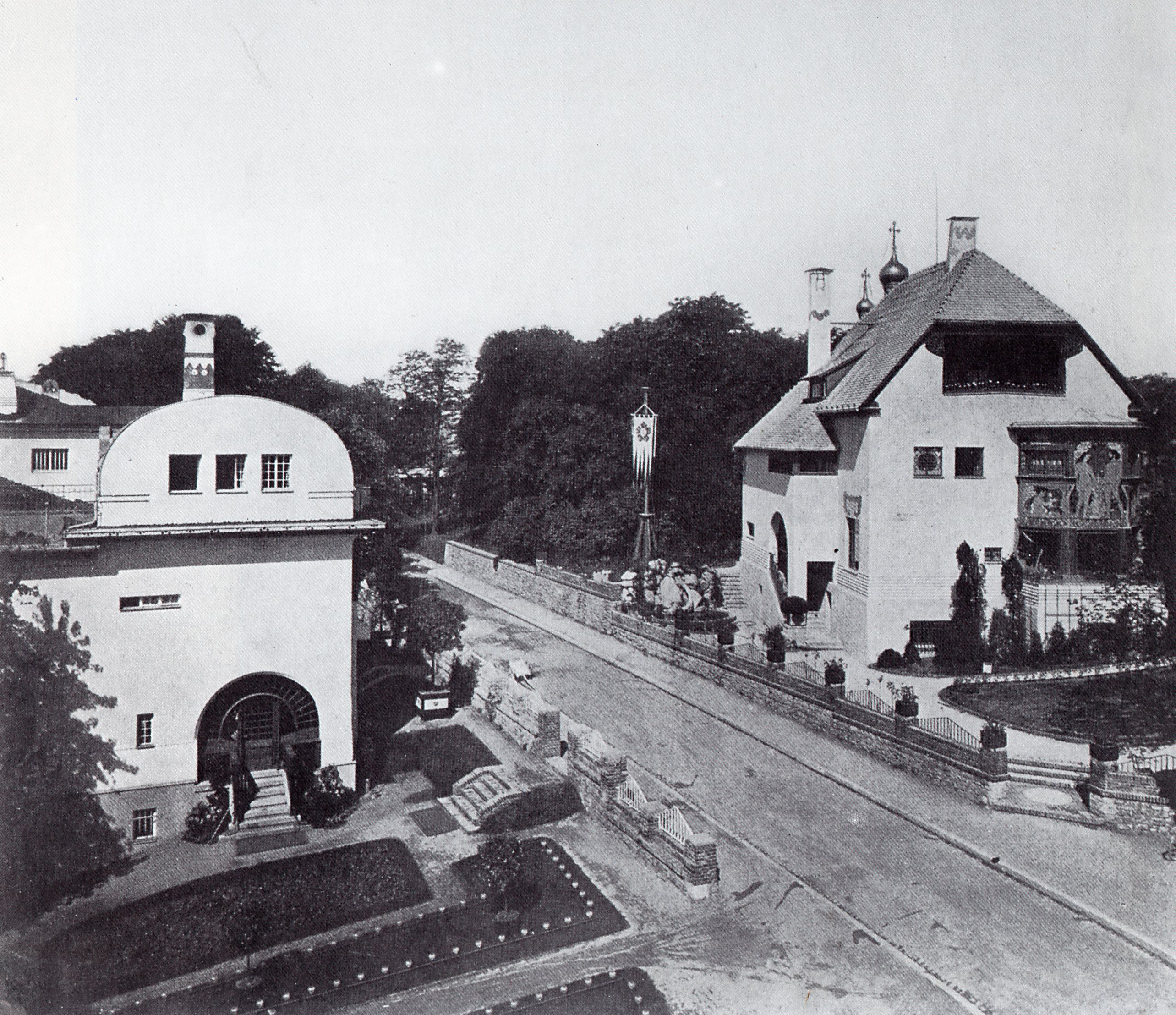 Mathildenhöhe Darmstadt